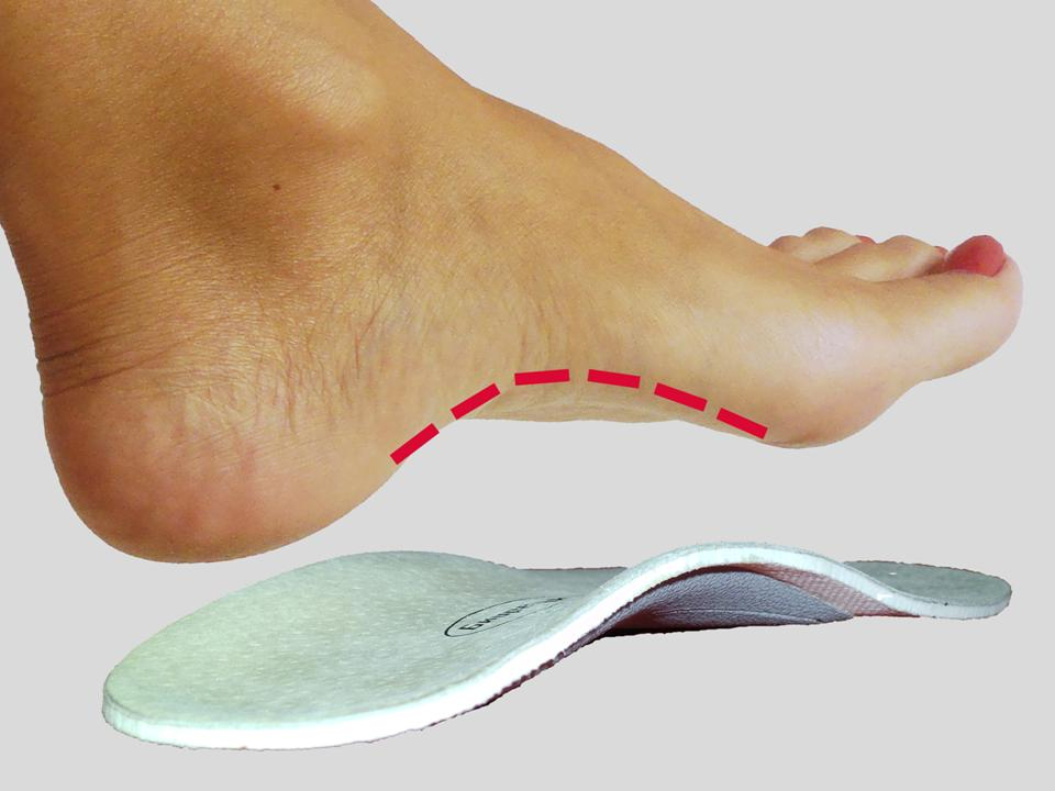 стелки за плоскостъпие